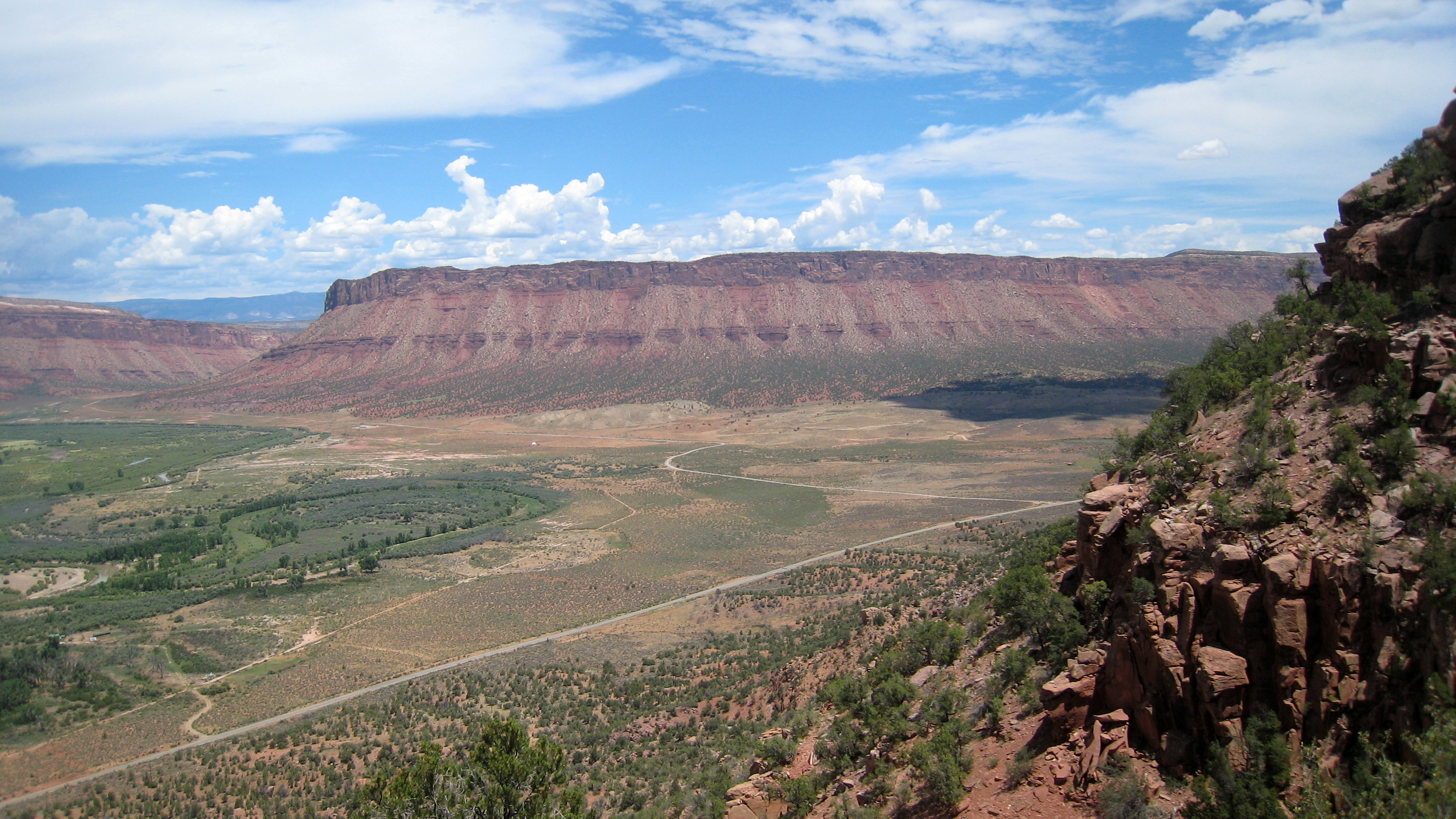 Looking down into Paradox Valley. This valley history in the 30's comes to life in David Lavender's fantastic book One Man's West